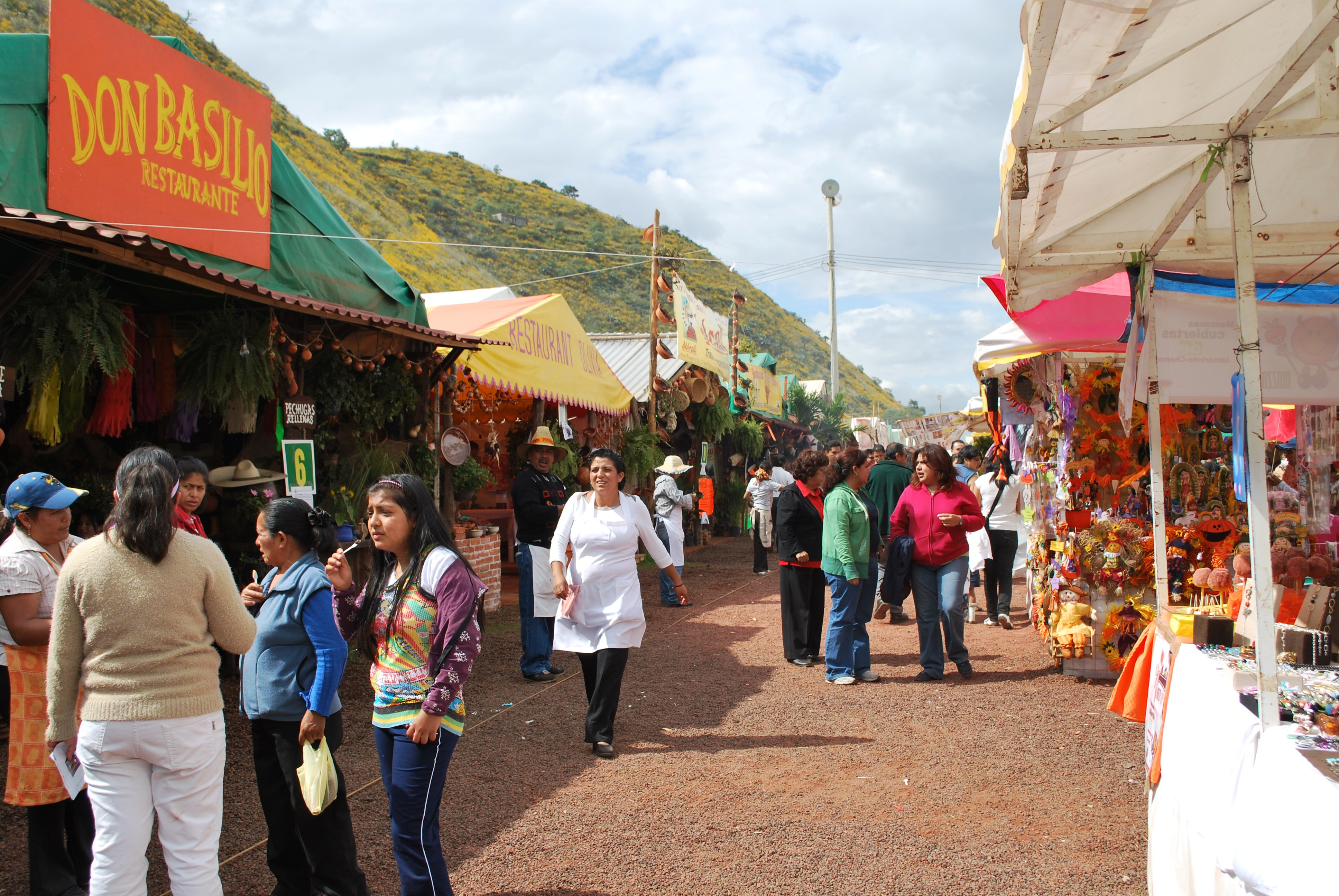 Passageway with mole food stands lined up on the left at the Feria de Mole in San Pedro Atocpan, DF